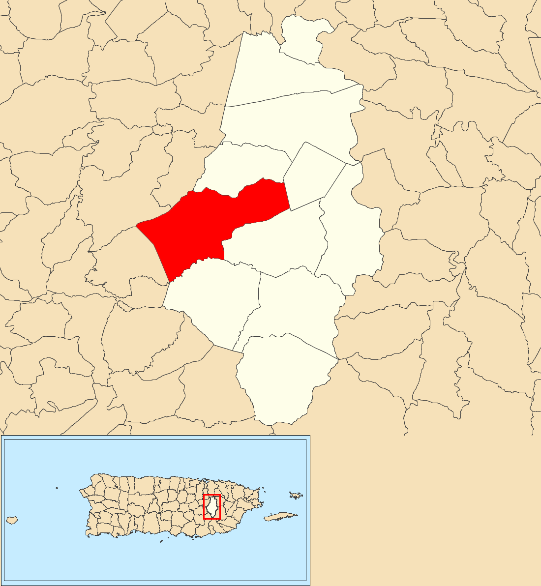 Cañaboncito, Caguas, Puerto Rico locator map